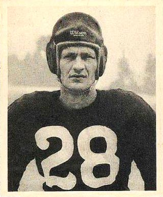 American football player Hugh Taylor (American football) on a 1948 Bowman card.